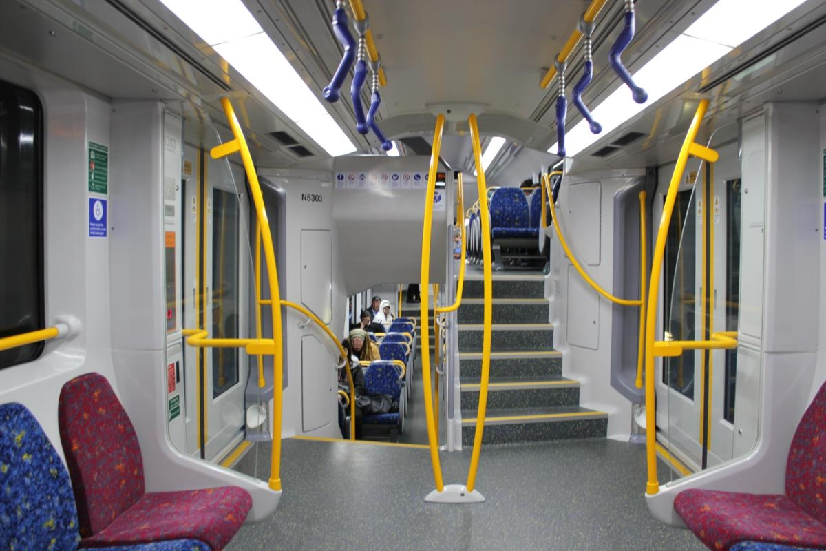 The carriage as viewed from inside the gangway